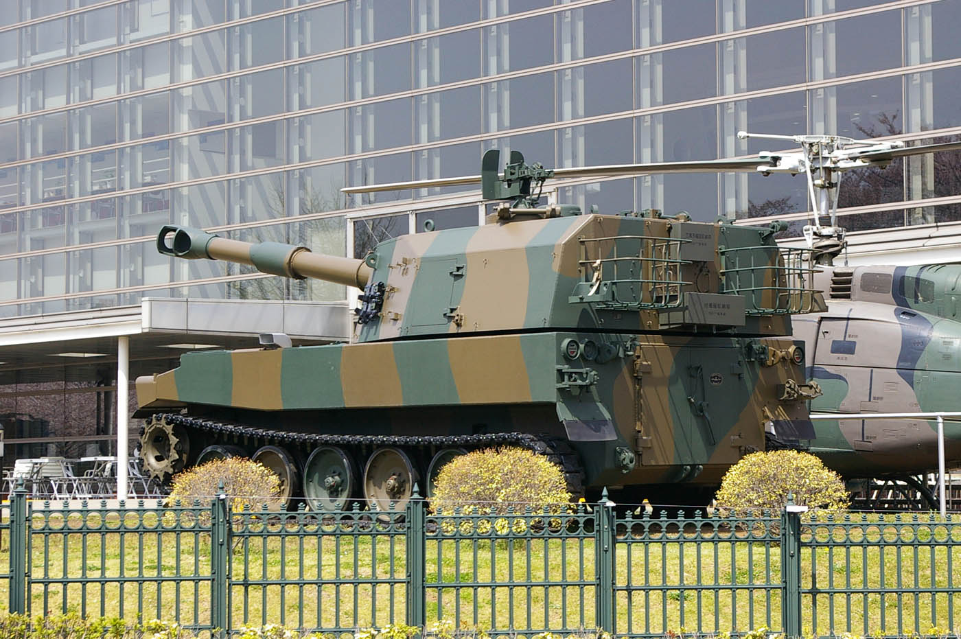 Taken by los688,5-Apr-2008,JGSDF Type 75 155 mm Self-Propelled Howitzer,JGSDF Public Information Center.PD-self. ja:2008年4月5日、投稿者撮影。75式自走155mmりゅう弾砲。陸上自衛隊朝霞駐屯地陸上自衛隊広報センター。